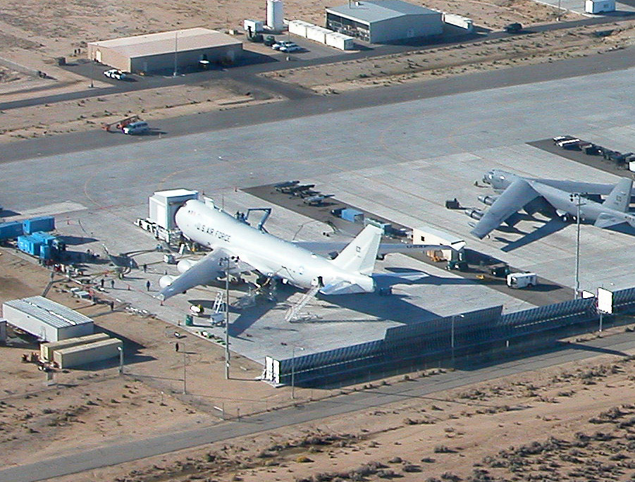 Boeing YAL-1 undergoing modification work at Edwards Air Force Base. A B-52 is seen on the right portion of the image.